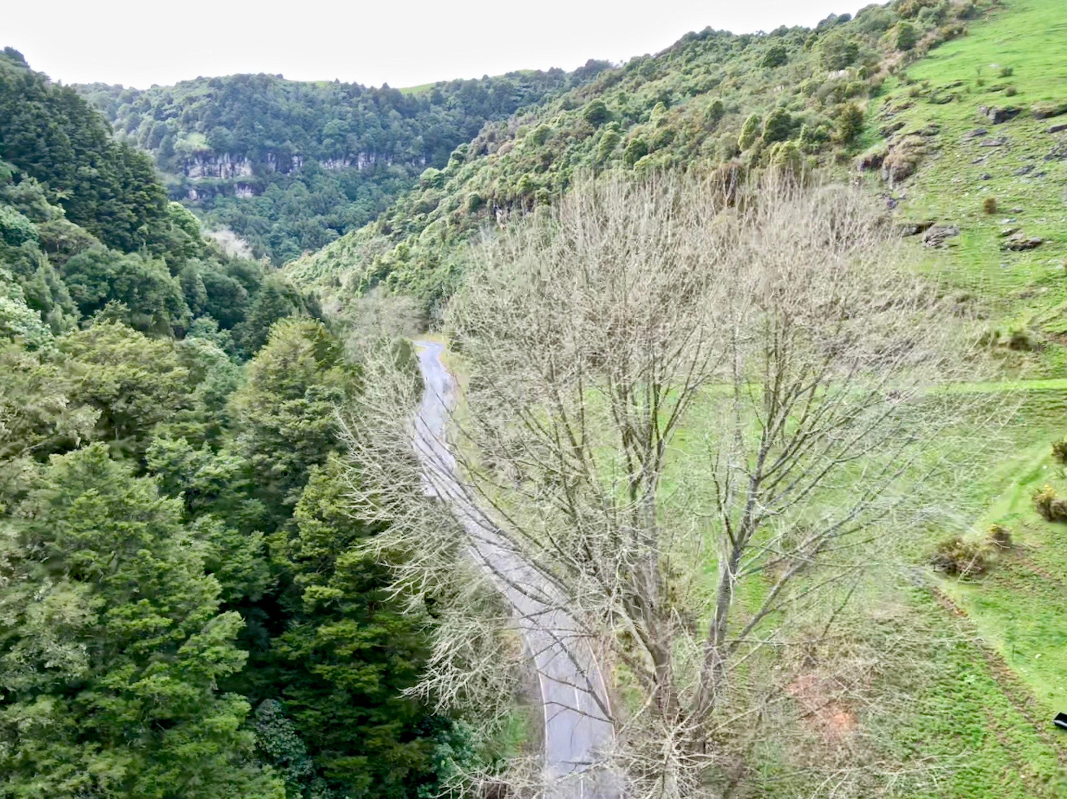 Limestone gorge on tributary of Waipa River, New Zealand